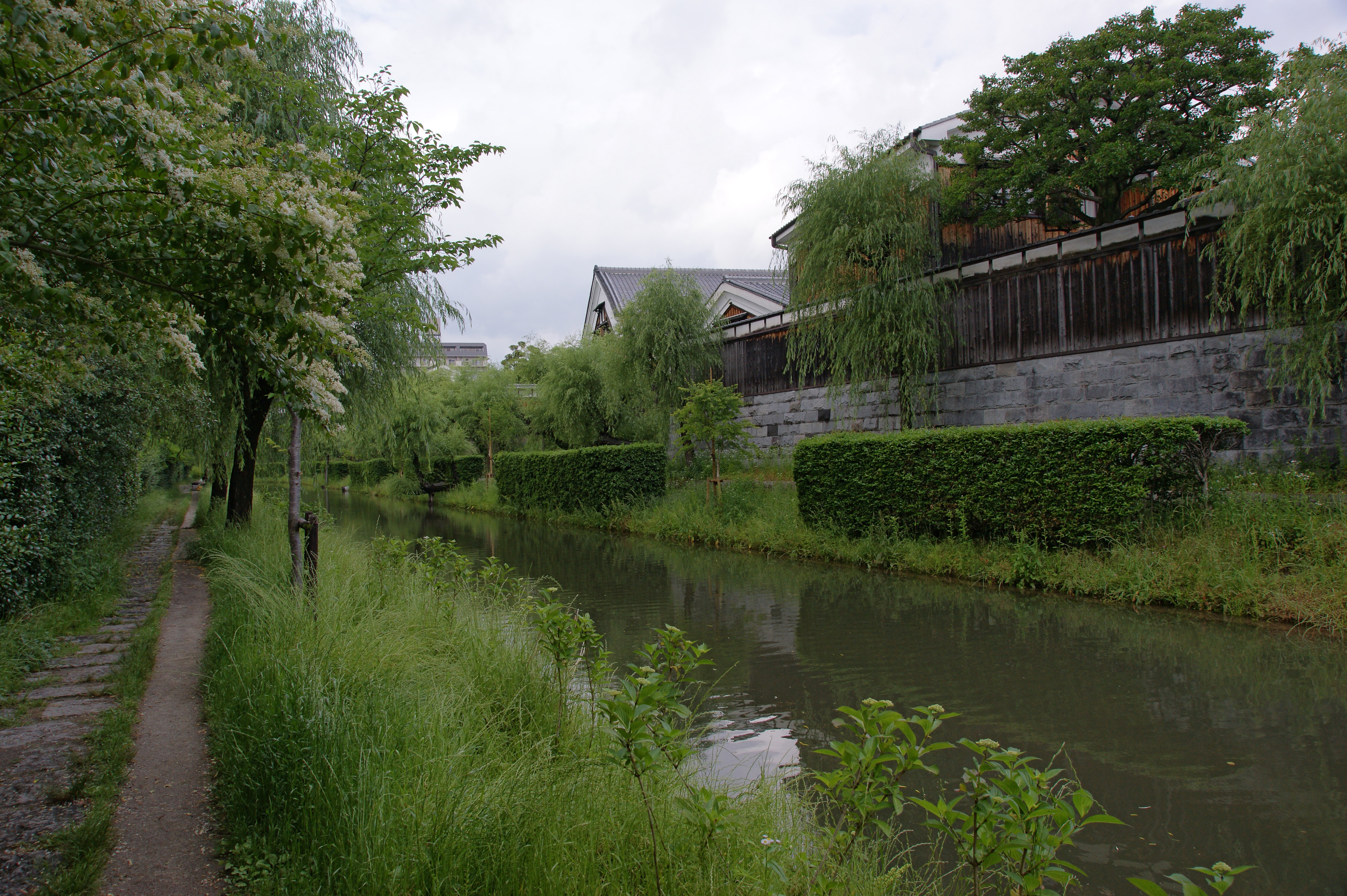 Ujigawa-haryu in Fushimi, Kyoto, Kyoto prefecture, Japan